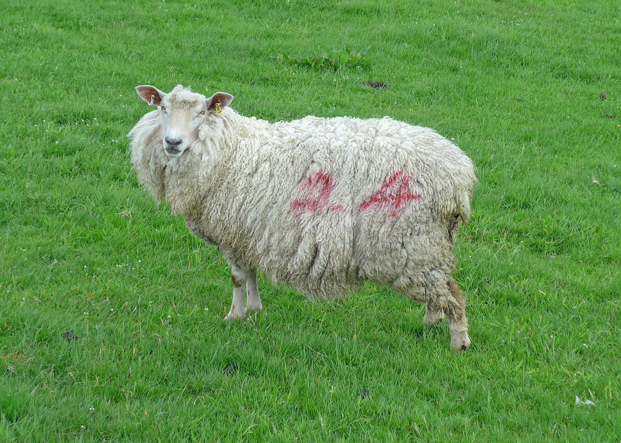 I Am Number Twenty-Four